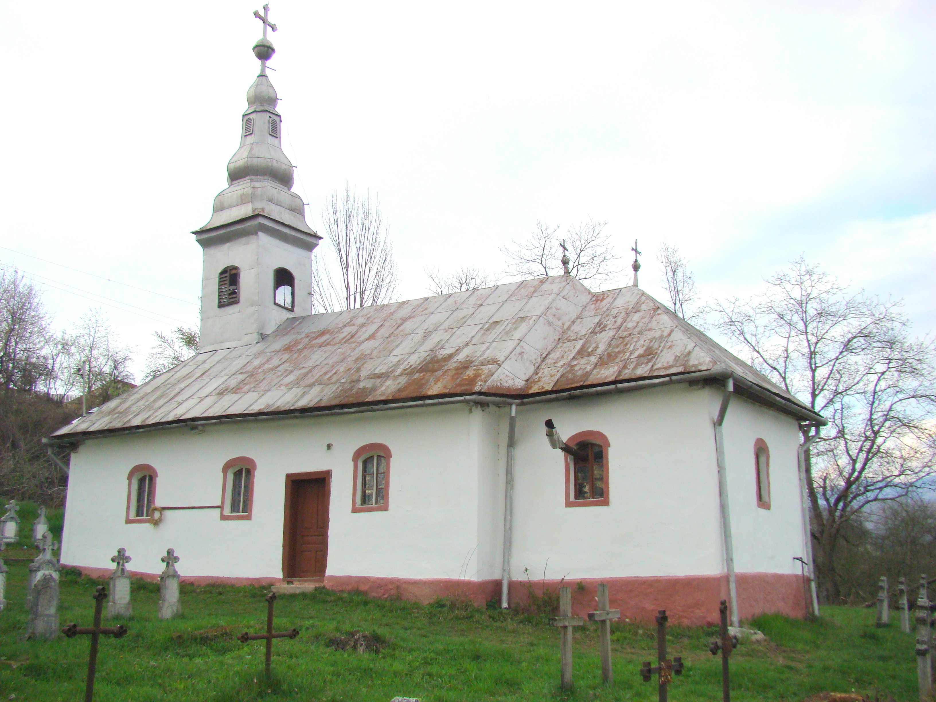 Wooden church in Săud, Bihor county, Romania